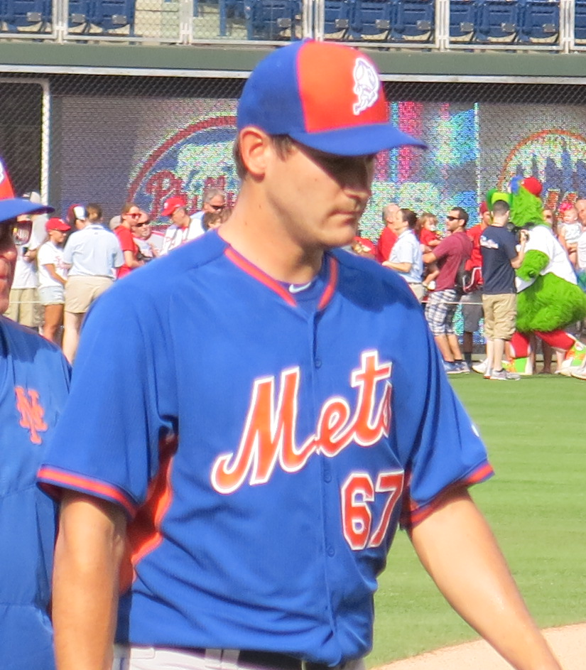 Seth Lugo of the New York Mets, July 16, 2016.